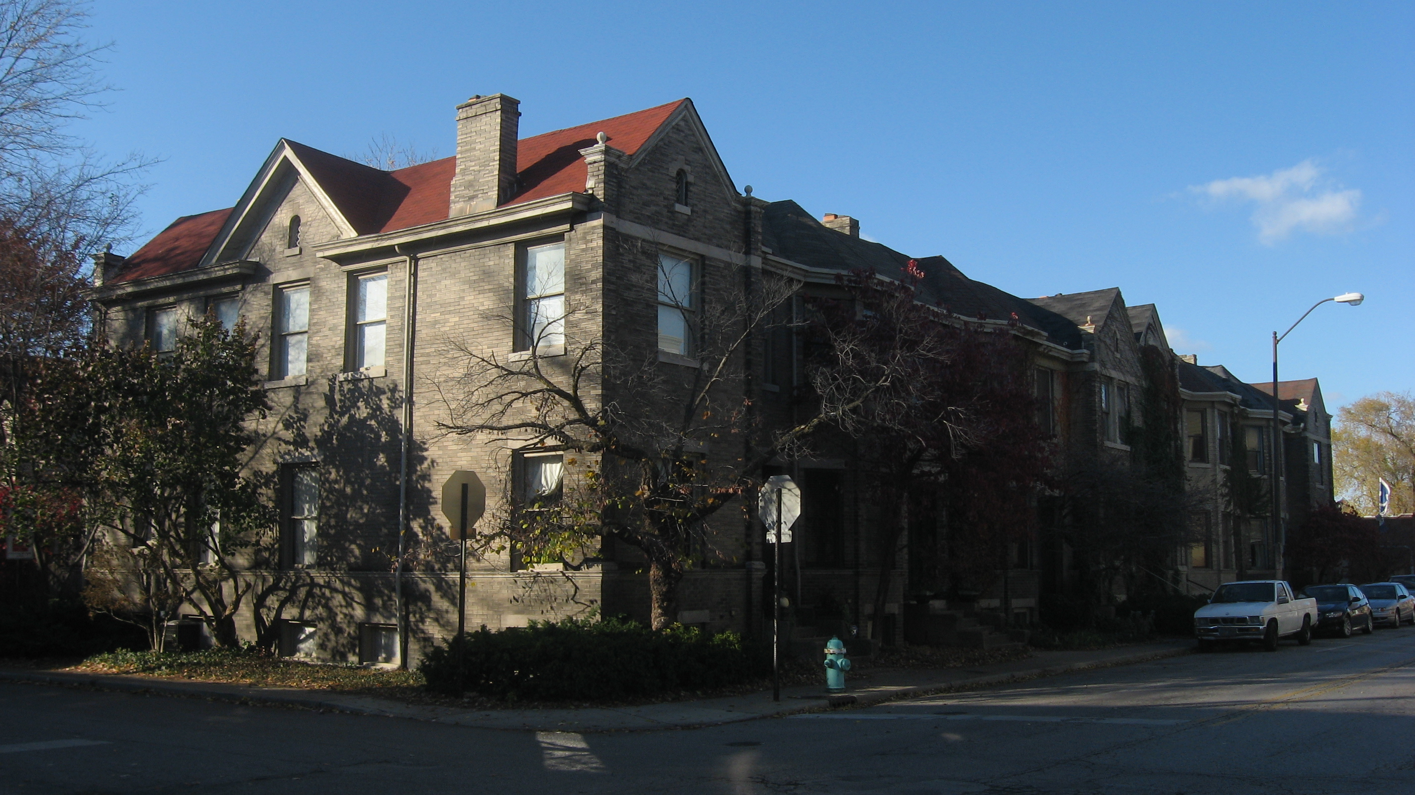 Front of Pearson Terrace, located at 928-940 N. Alabama Street in Indianapolis, Indiana, United States. Built in 1901, it is listed on the National Register of Historic Places.